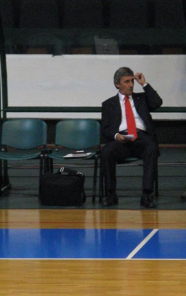 Svetislav Pešić